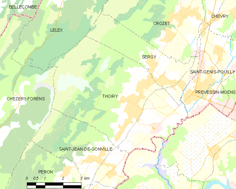 Map of French commune: Thoiry Map commune FR insee code 01419.png